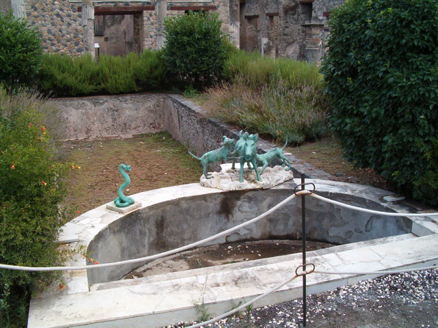 The wild boar house